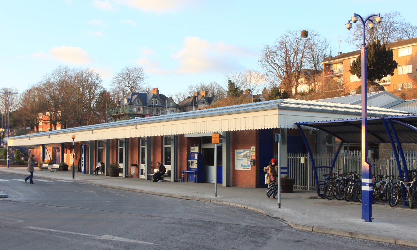 Looking north towards the railway station at High Wycombe.